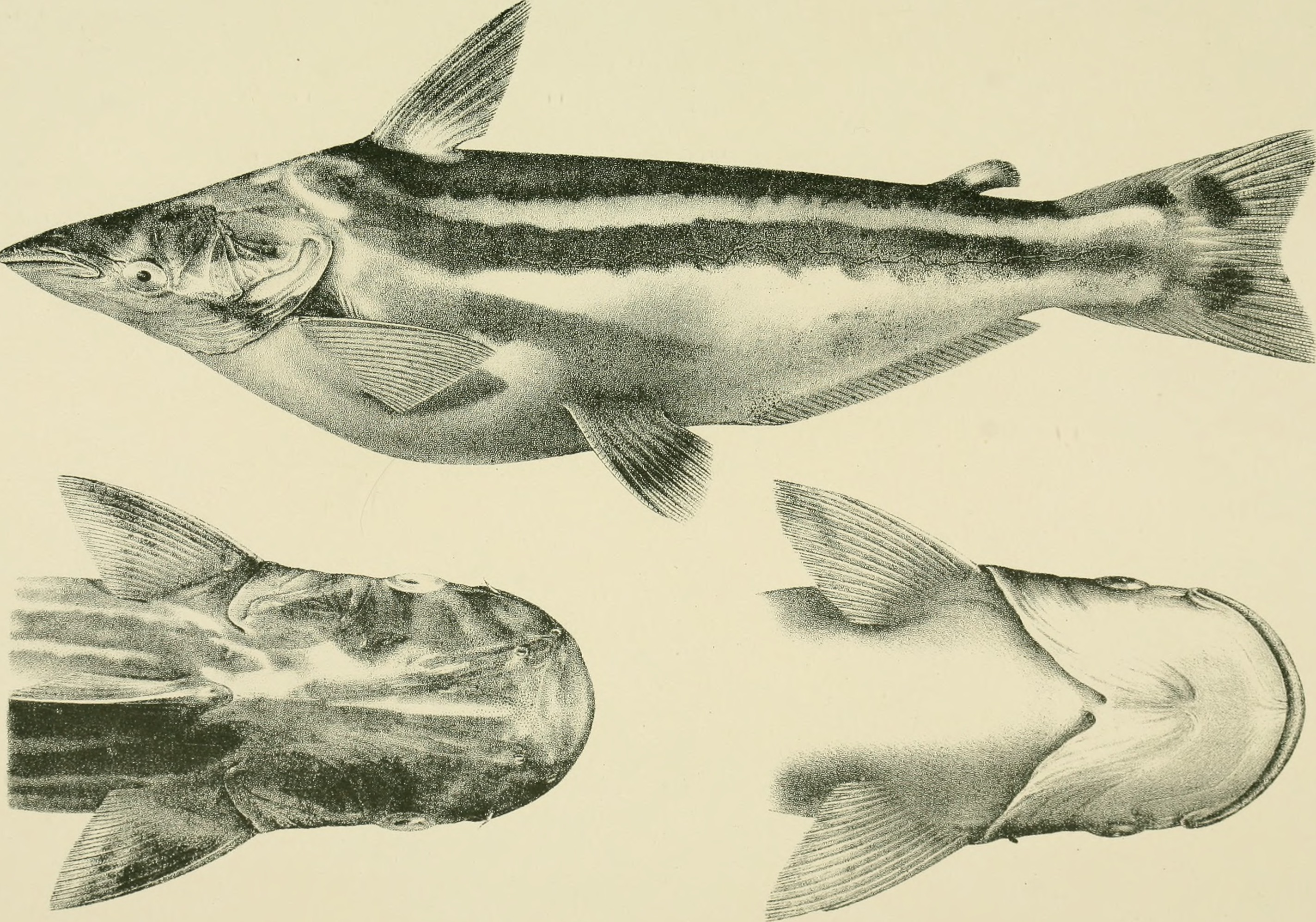 Title: Annalen des Naturhistorischen Museums in Wien Year: 1910-1911 (1910s) Authors: Naturhistorisches Museum (Austria) Subjects: Naturhistorisches Museum (Austria); Natural history Publisher: Wien, Naturhistorisches Museum [etc. ] Text Appearing Before Image: Steindachner: Ober einige Ageneiosus-Arten. Tafel IX. Text Appearing After Image: J Fleischmann, n. d. N. gez. Drnck A. Berger, Wien VIII. Annalen des k. k. naturhistorisehen Hofmuseums, Band XXIV. 1910.